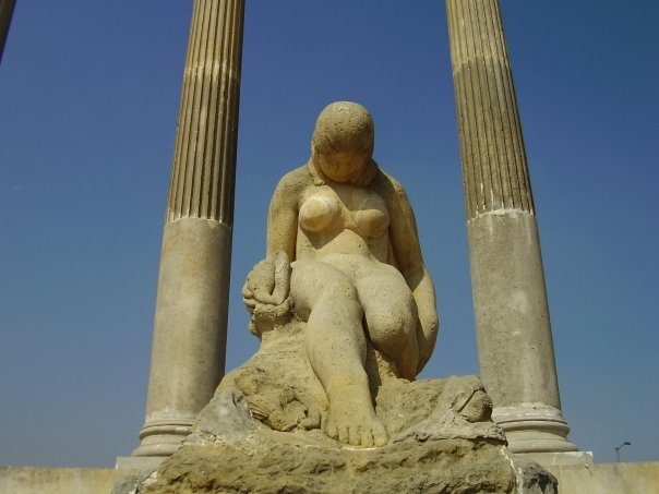 The statue of the Goddess of Water was carved in stone by sculptor Maria Teresa zerda Bogotá. Represents the divinity naked, with a snail, a symbol of life in their hands and sat on a rock that emerges in the middle of a pond. It serves as a monument to fund a portico formed by 4 Ionic columns. The Goddess of Water - identify with Bachué.